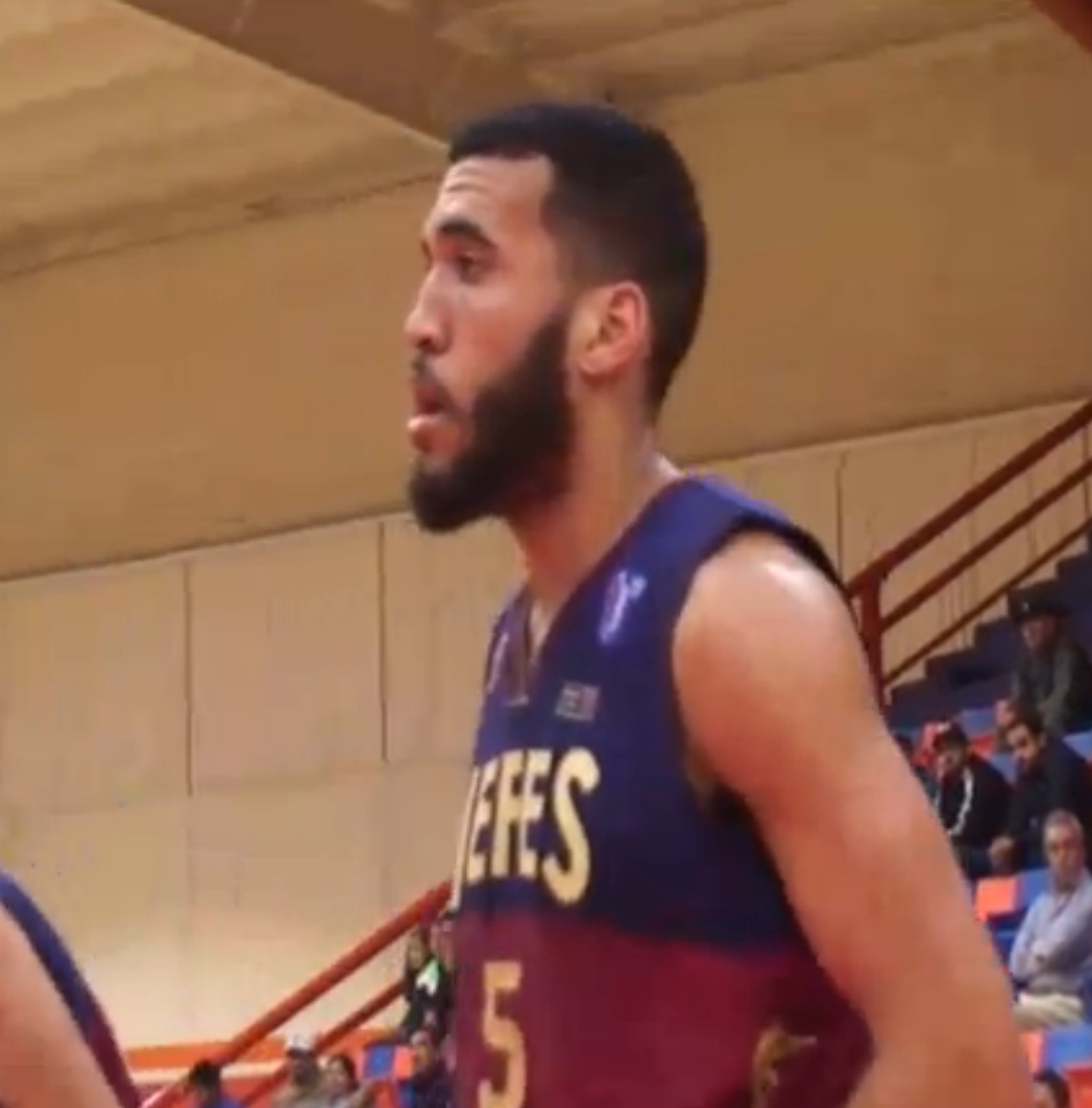 Professional basketball player Jalen Cannon with the Jefes de Fuerza Lagunera on December 5, 2015.